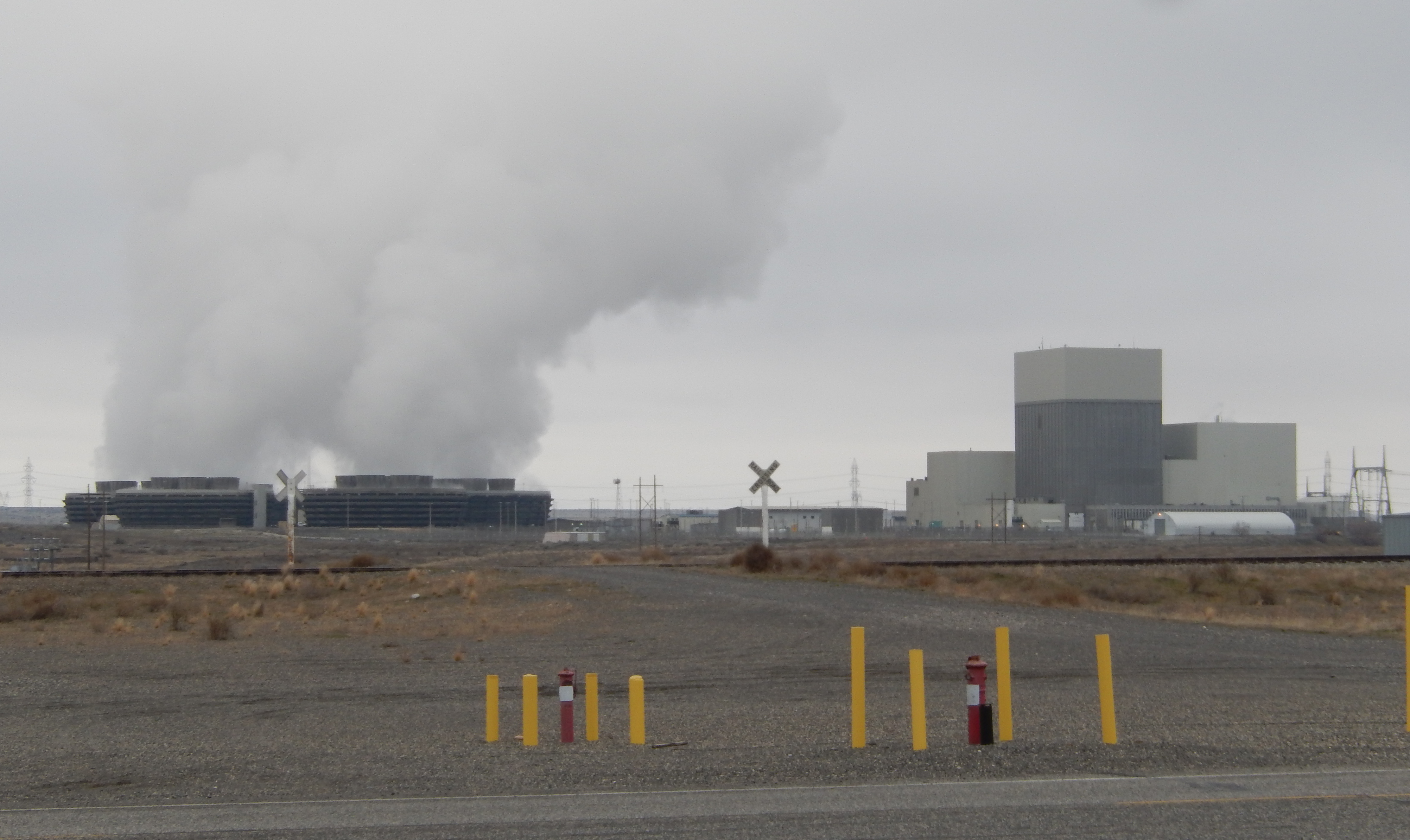 View of the Columbia Nuclear Generating Station and low draft cooling towers at Hanford WA, USA.